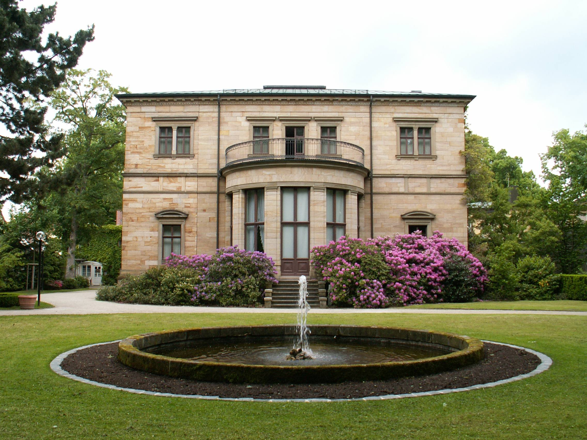 Backside view of Wahnfried, Richard Wagner's house in Bayreuth (before restoration)